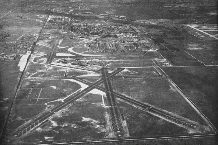 The Naval Air Station Miami, Florida, USA, about 1946/47.